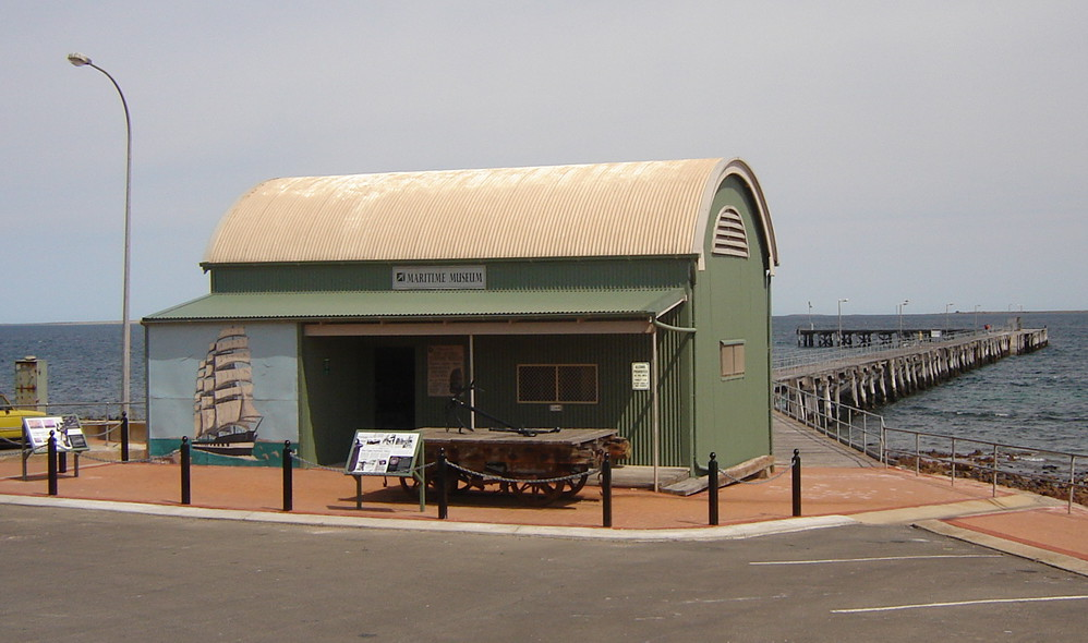 A better view of the maritime museum at Port Victoria with jetty in the background